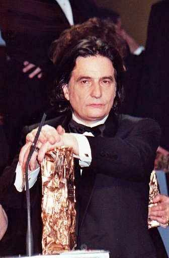 Jean-Pierre Léaud, French actor, at the César awards ceremony